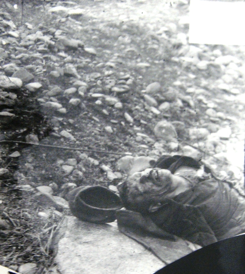 Prominent ilinden fighter - voivoda Alexander Koshka from Gopesh, killed in clashes with the Turkish army. 1907 This media file is produced by Wikipedian in Residence in Category:Wikipedian in Residence at DARM in 2016.